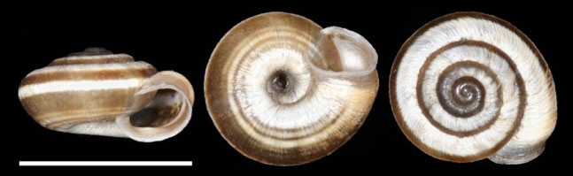 Composition of the 3 main views of the shell of Zarateana arganica. Locality: Berrostegieta, Araba (Spain).